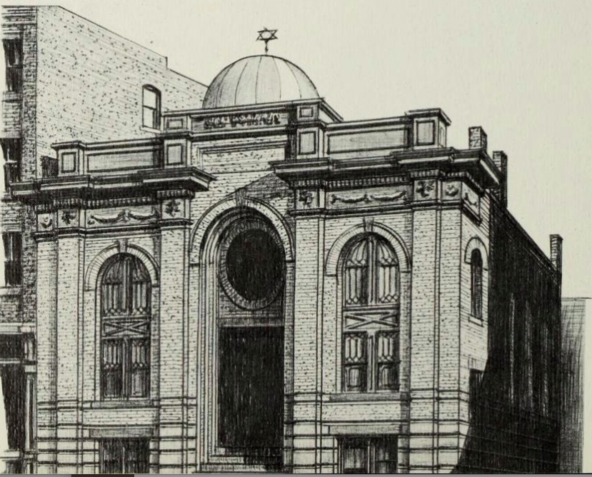 Perspective sketch of an early synagogue building in Holyoke, Massachusetts, designed for Congregation Rodphey Shalom by George P. B. Alderman in 1903. The structure originally stood in the vicinity of 300 Park Street, according to an article in a September 5, 1904 issue of The Republican, although the 1911 Richards maps of Holyoke do not indicate this location.